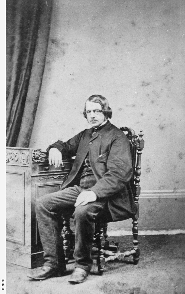 B-7028 Portrait of John Michael Skipper, artist and solicitor, seated and resting one hand on a desk. He came out to South Australia on the Africaine in 1836. [On back of photograph] John Michael Skipper / 1863 / Copied from Archives from photograph in posession of Mr. S.H. Skipper'.